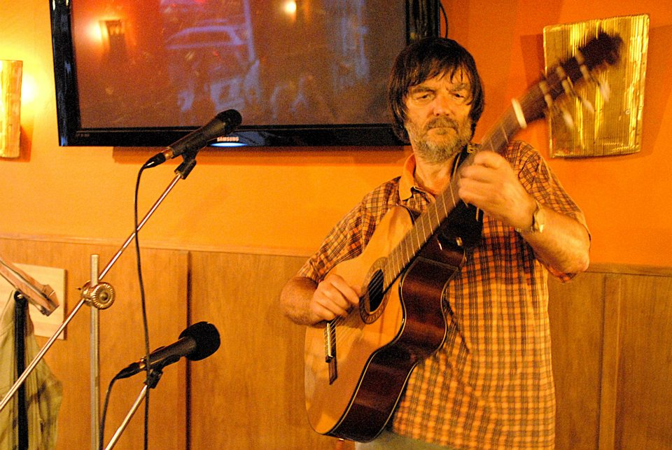 Pepa Nos - Banská Bystrica, 2. 6. 2012